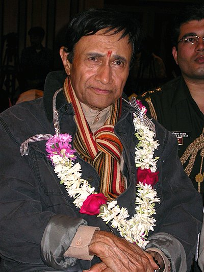 Indo-American Society felicitates Dev Anand